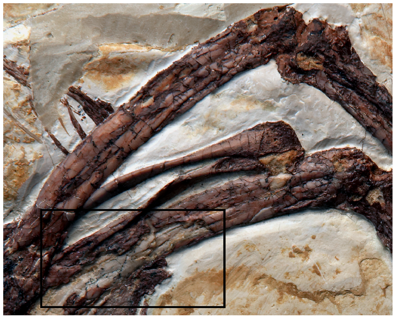 Skeletal elements from the largest known Archaeopteryx (also known as Wellnhoferia) specimen showing cortical delamination.